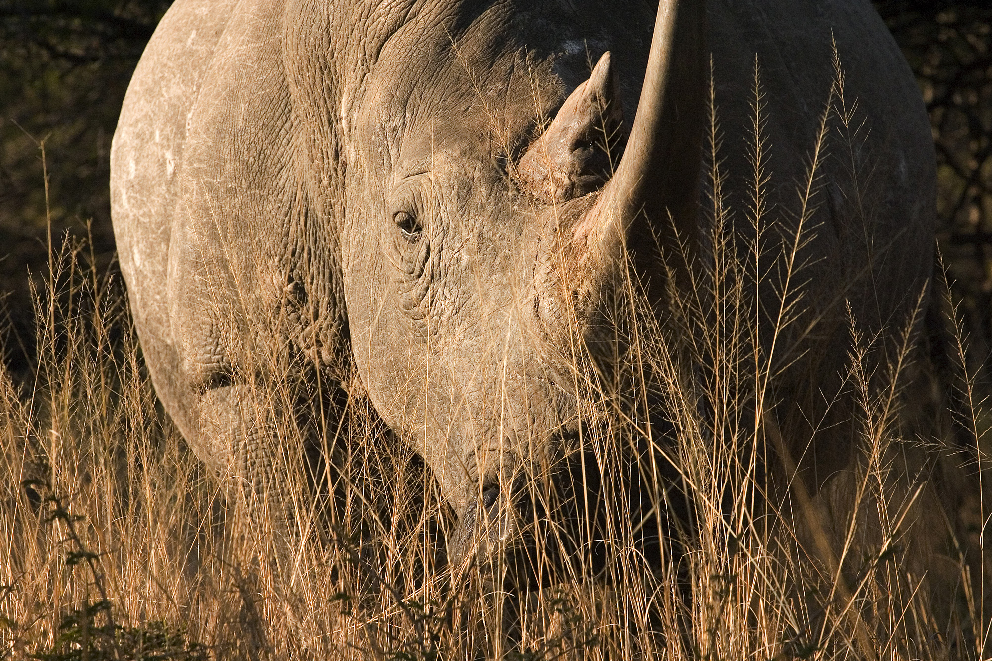 White rhino in Ithala Game Reserve, Northern KwaZulu Natal, South Africa.